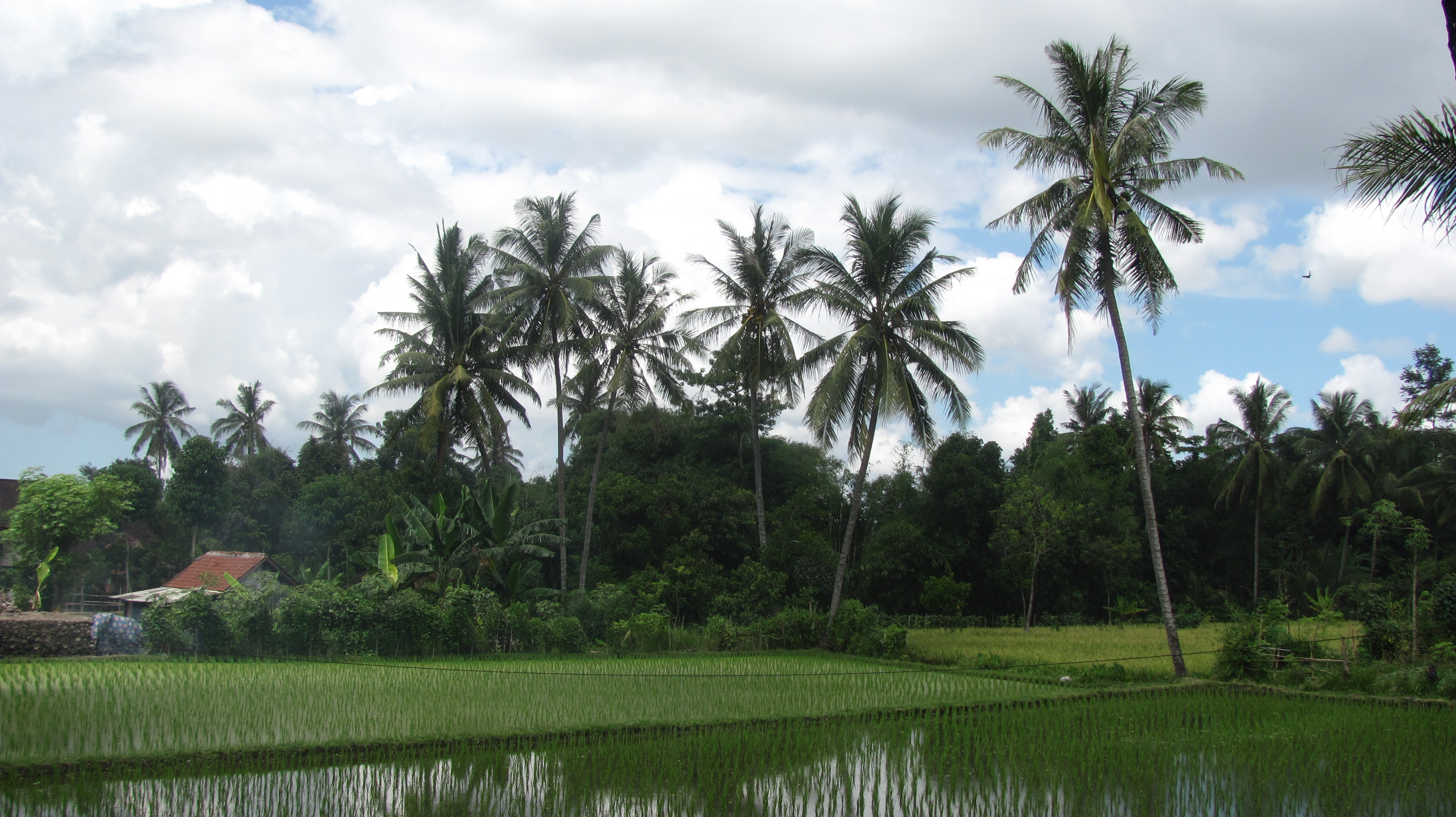 Paddy field near Masbagik, Lombok, Indonesia